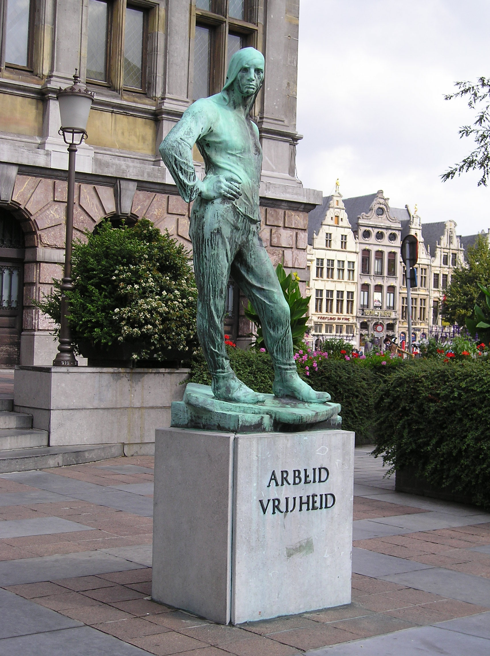 Monument of the harbour worker, work of the Belgian sculptor Constantin Meunier (1831-1905). The monument is situated in Antwerpen, near the city hall. The words on the socle are Dutch and mean "Labour" (arbeid) and "Freedom" (vrijheid)